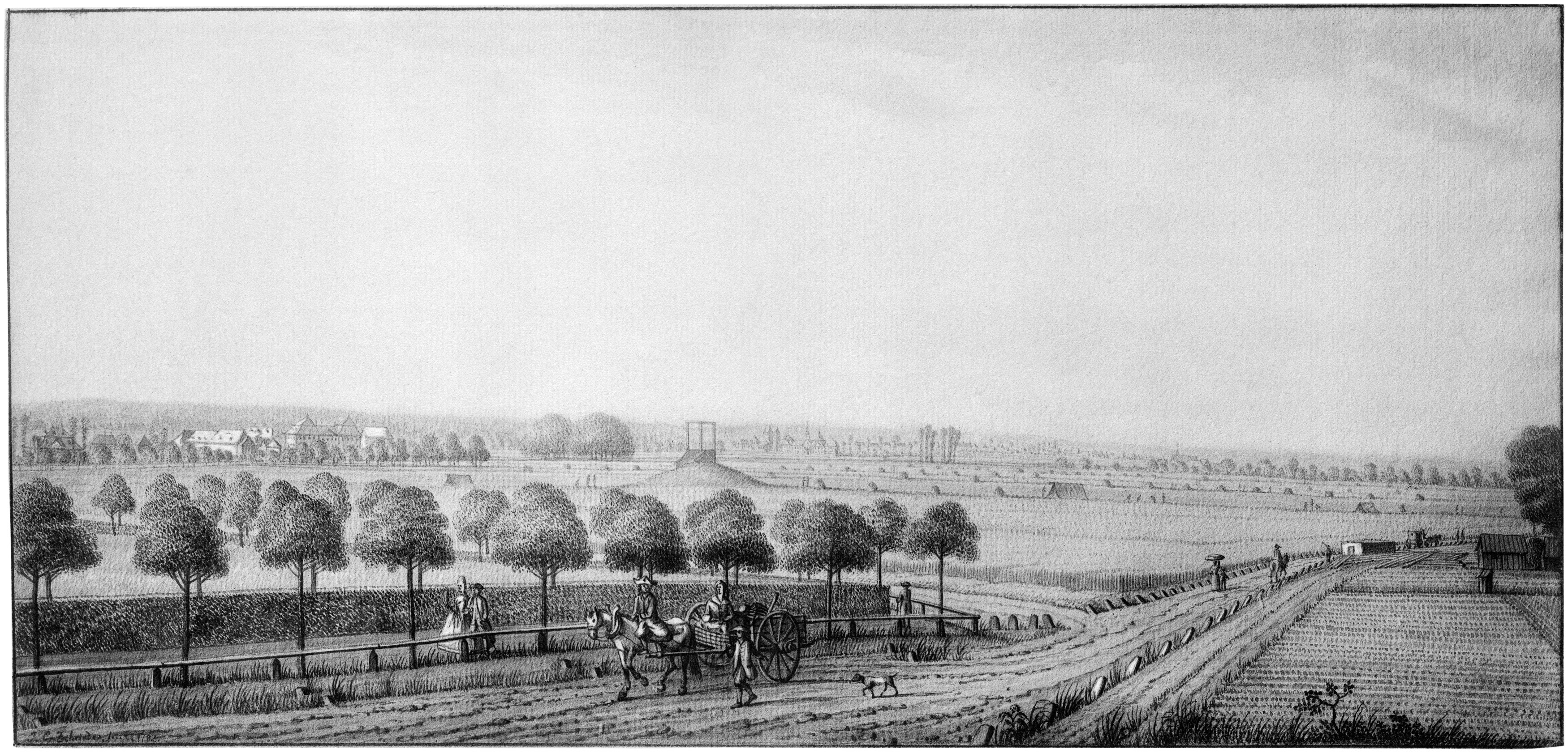 Frankfurt on the Main: Galgenfeld (Gallow Field) with the gallow